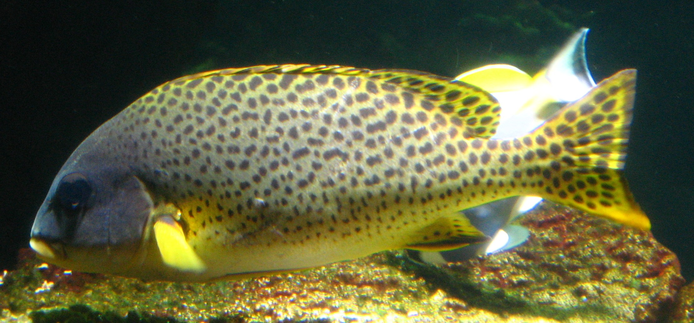 Plectorhinchus gaterinus in Nausicaä Centre National de la Mer